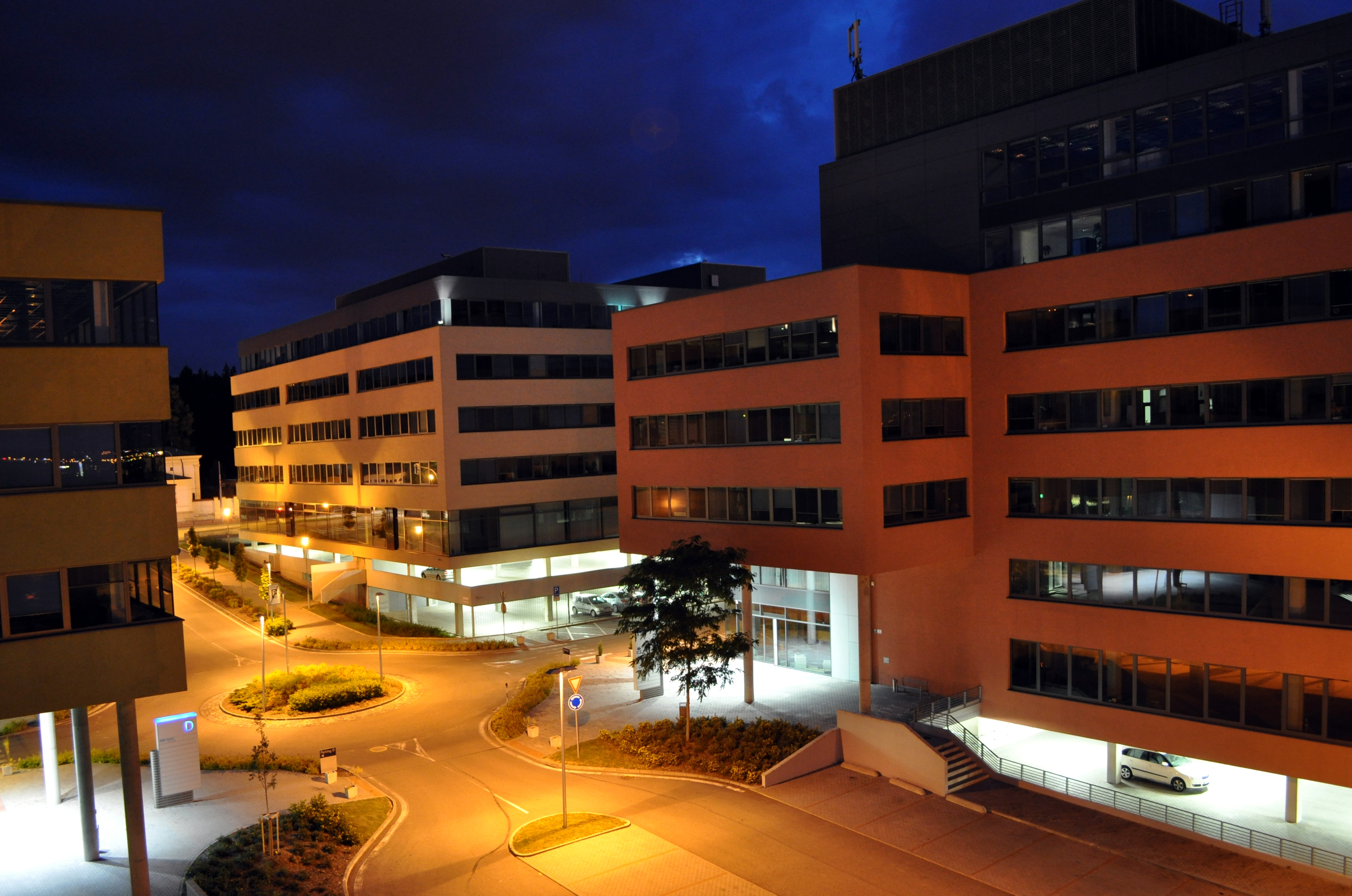 Brno - London square - Brno Business Park